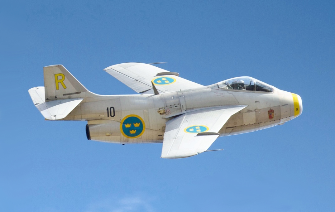 SAAB J29 Tunnan-8589